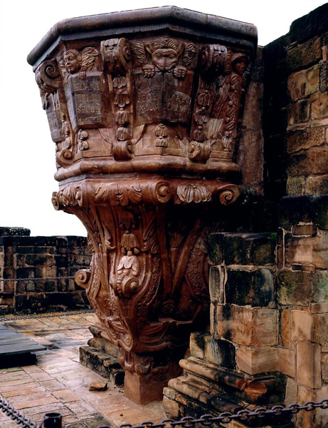 Ref: PMa_PY_021_Trinidad; foto dd 1992; Cultural heritage; South America; South America|Paraguay; Iglesia de Trinidad ; Trinidad; Paraguay; photo: Paul M.R.Maeyaert; © Paul M.R. Maeyaert